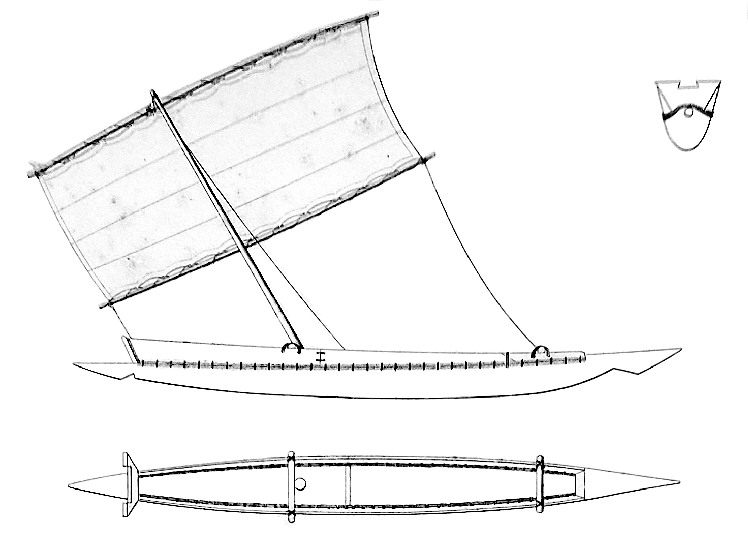 Essai sur la construction navale des peuples extra-européens, ou, Collection des navires et pirogues (ca. 1845), Volume 2 (Atlas), Plate I.